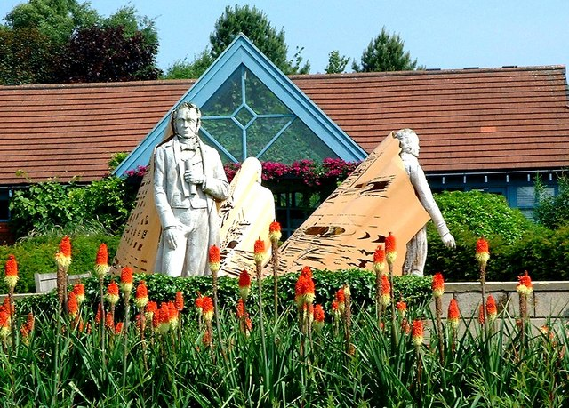 Carved wooden statues in the Durham University Botanic Garden